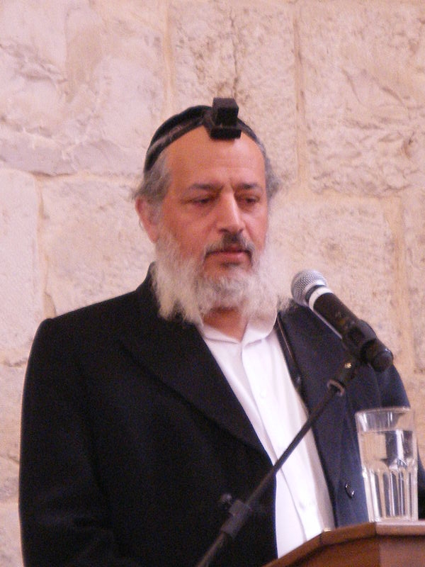 rabbi elihu silberman